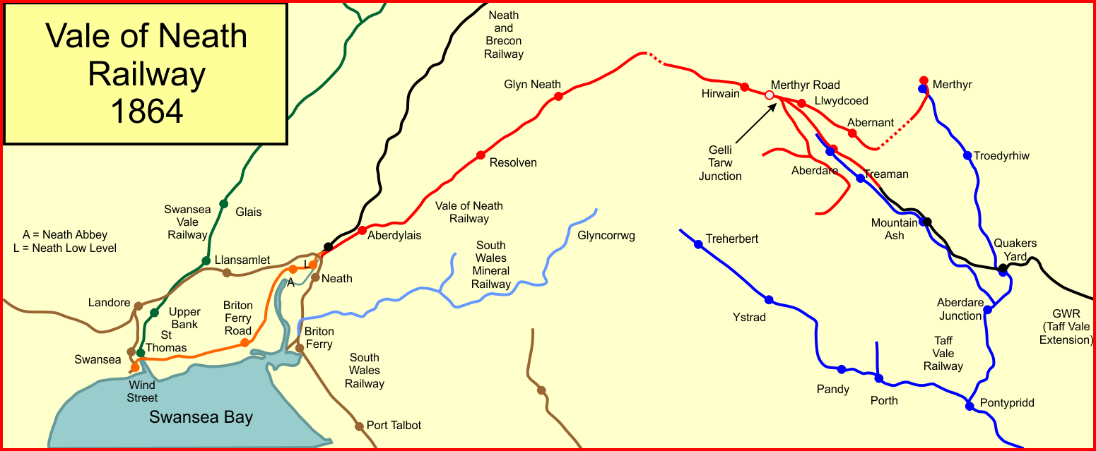 System map of the Vale of Neath Railway, Wales, in 1864